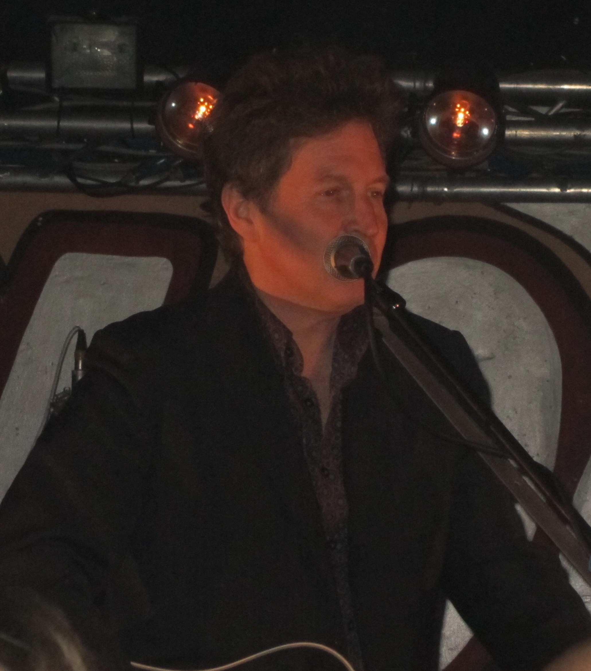 Steve Wynn in an acoustic concert at Bloom in Mezzago (Italy) on 12 February 2011